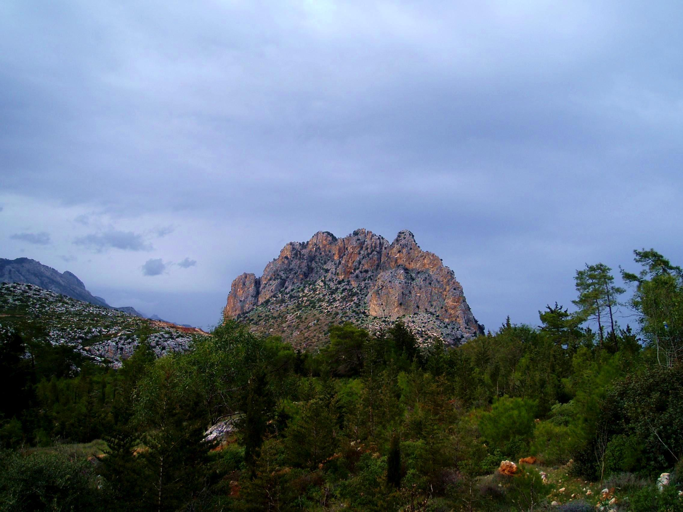 Besparmaklar mountain (Five-fingers/Pentadactylos), North Cyprus